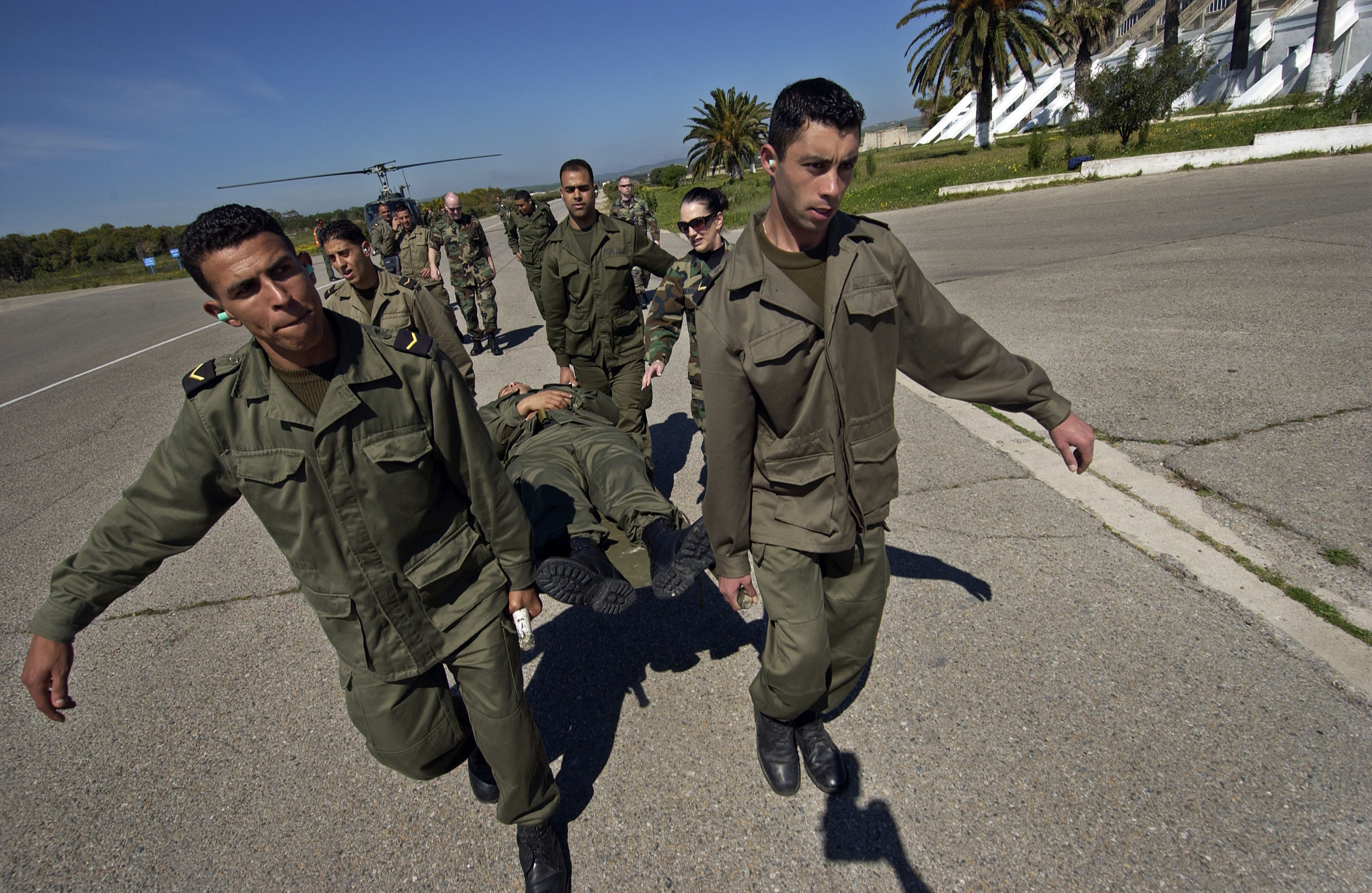 Tunisian military medical nurses carry a stretcher from a Tunisian helicopter as U.S. Air Force medical personnel observe during a mass casualty exercise at Kharrouba Air Base in Bizerte, Tunisia, on April 3, 2006. The exercise is providing an exchange of medical skills, techniques and procedures between U.S. Air Force medical personnel and the Tunisian military health services.